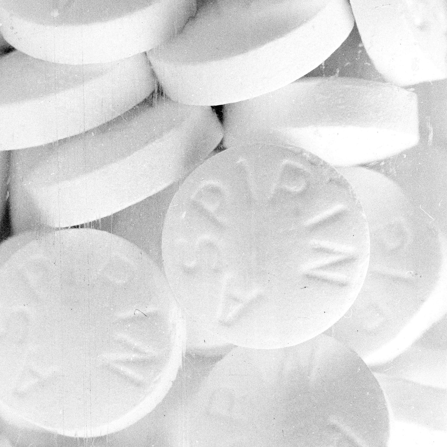 aspirine pill macro shot bayer photography fotopixel